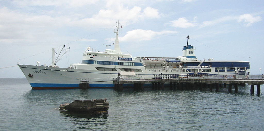 The MV Logos II docked in Roseau, Dominica. IMO Number: 6806834 MMSI Number: 249110000 Callsign: 9HVE2 Length: 110 m Beam: 16 m